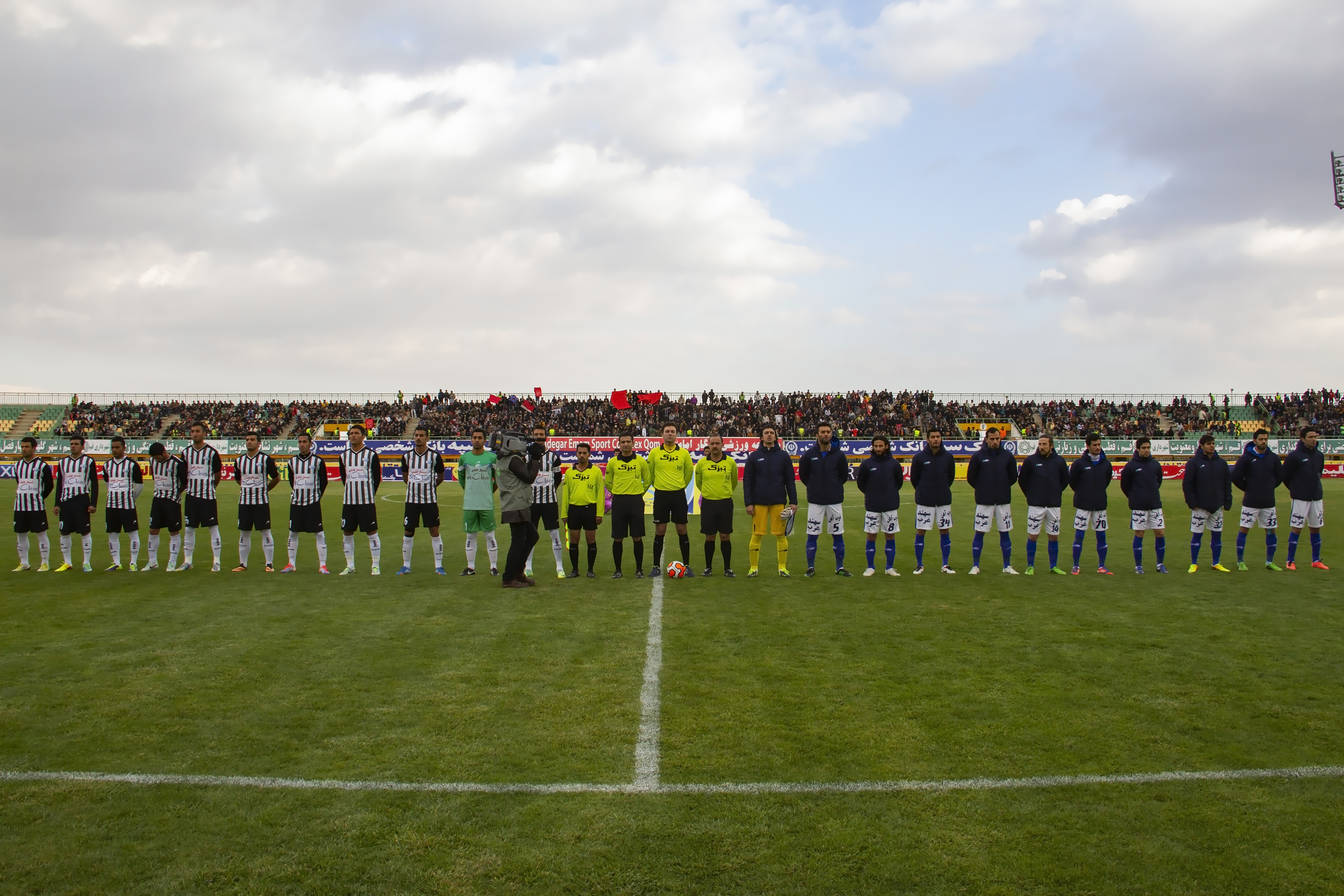 Esteghlal Football Club until 1979 known as Taj Football Club (Persian: تاج, meaning Crown) is an Iranian professional football club based in Tehran that plays in the Persian Gulf Pro League. Esteghlal F.C. is the football club of the multisport Esteghlal Athletic and Cultural Club